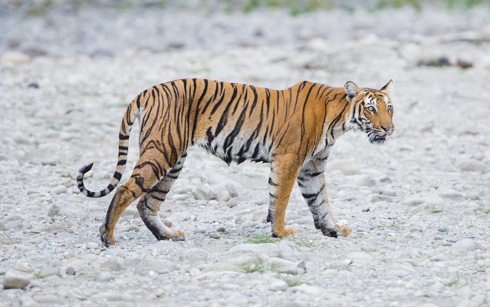 Tiger of Dhikala